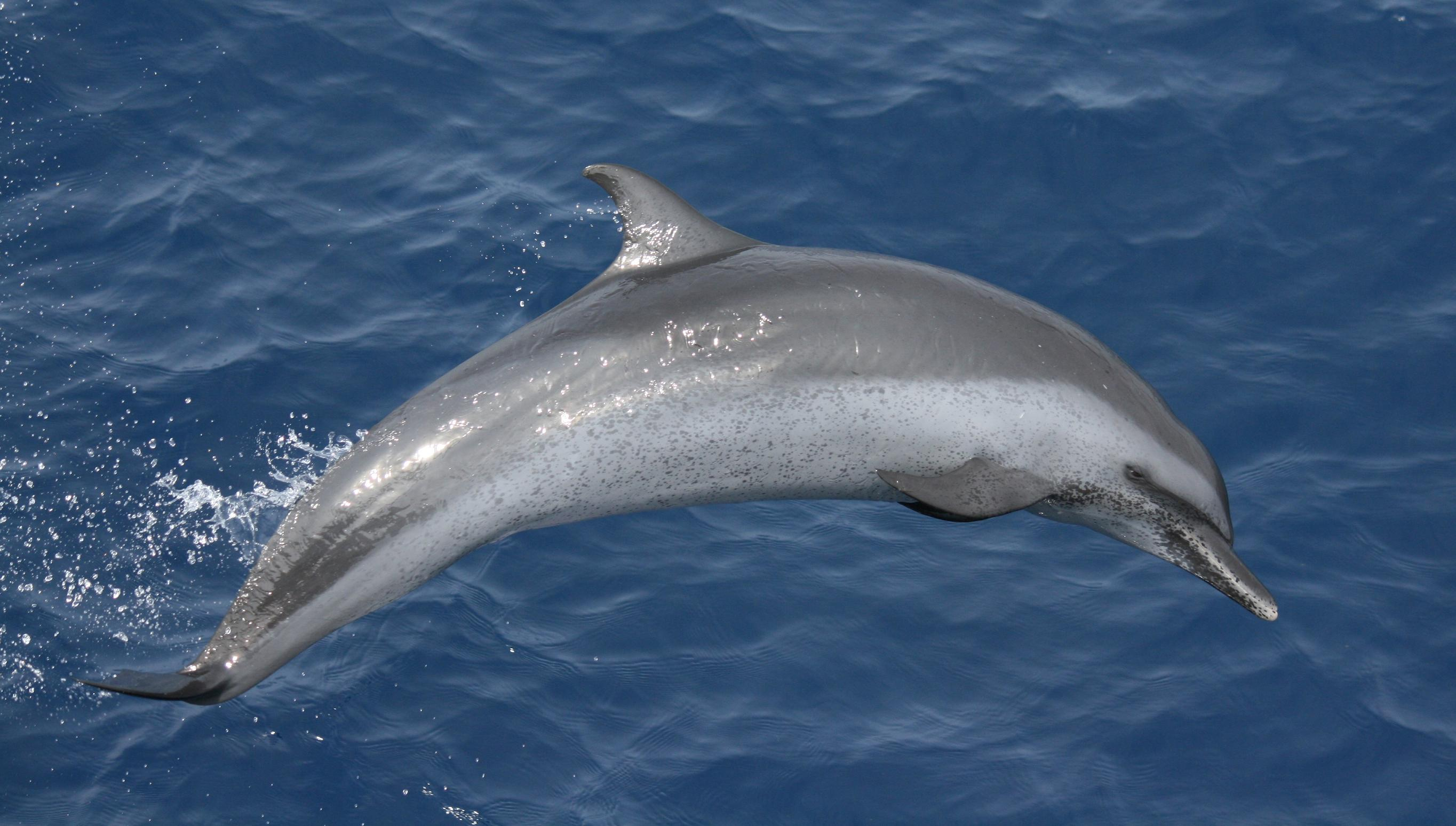 From a R/V Roger Revelle marine mammal behavior studies expedition in the Bahamas.